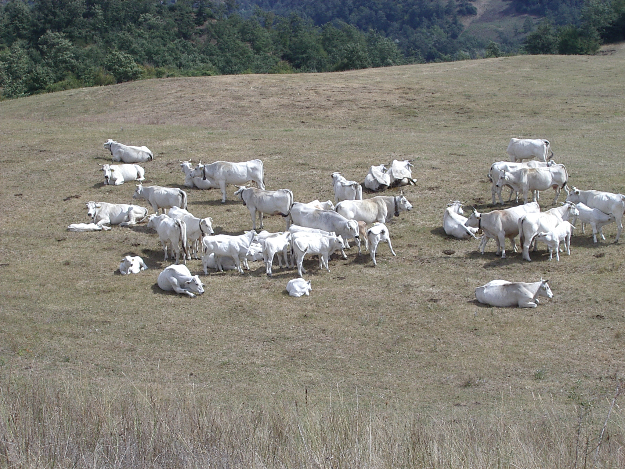 Cow in Valmarecchia